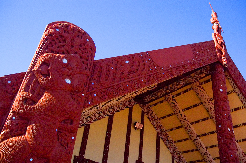 Detail of front of Tamatekapua, a wharenui (Meeting house) at Te Papaiouru Marae, Ōhinemutu, Rotorua (22 January 2005), The North Island, New Zealand.